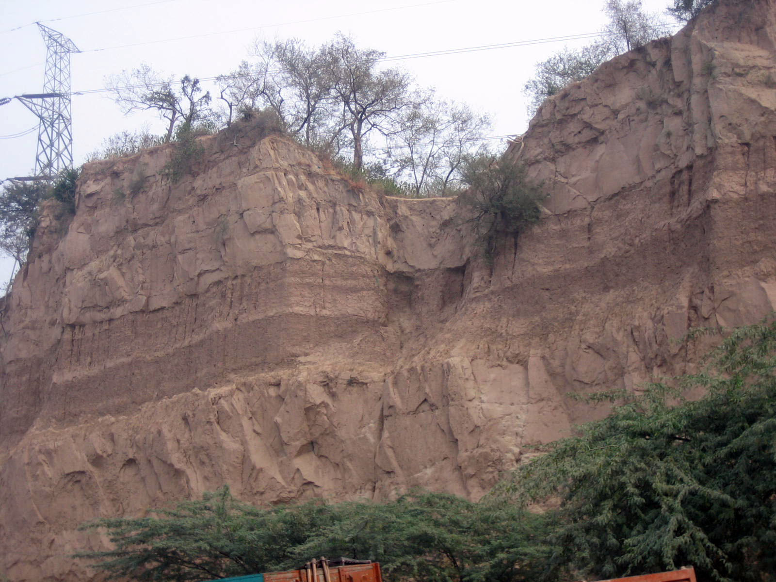 Field photo of the Siwalik sandstone complex taken in the city of Jawalamukhi, Northern India. Field photo courtesy of Dr. Peter Clift, LSU Geology and Geophysics